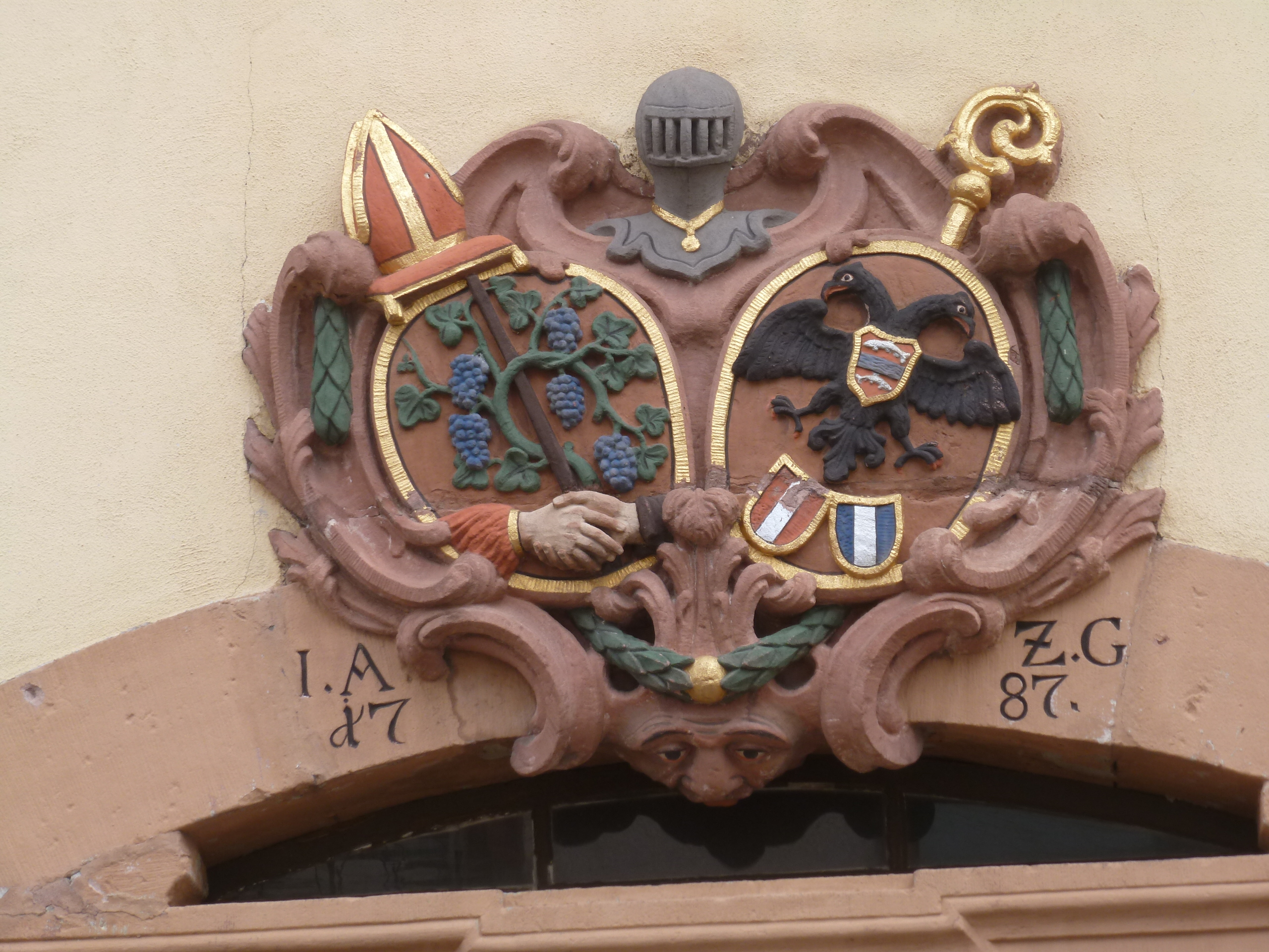 Parsons's house at church St. Nikolaus (Ichenheim, Neuried, Baden-Württemberg, Germany)